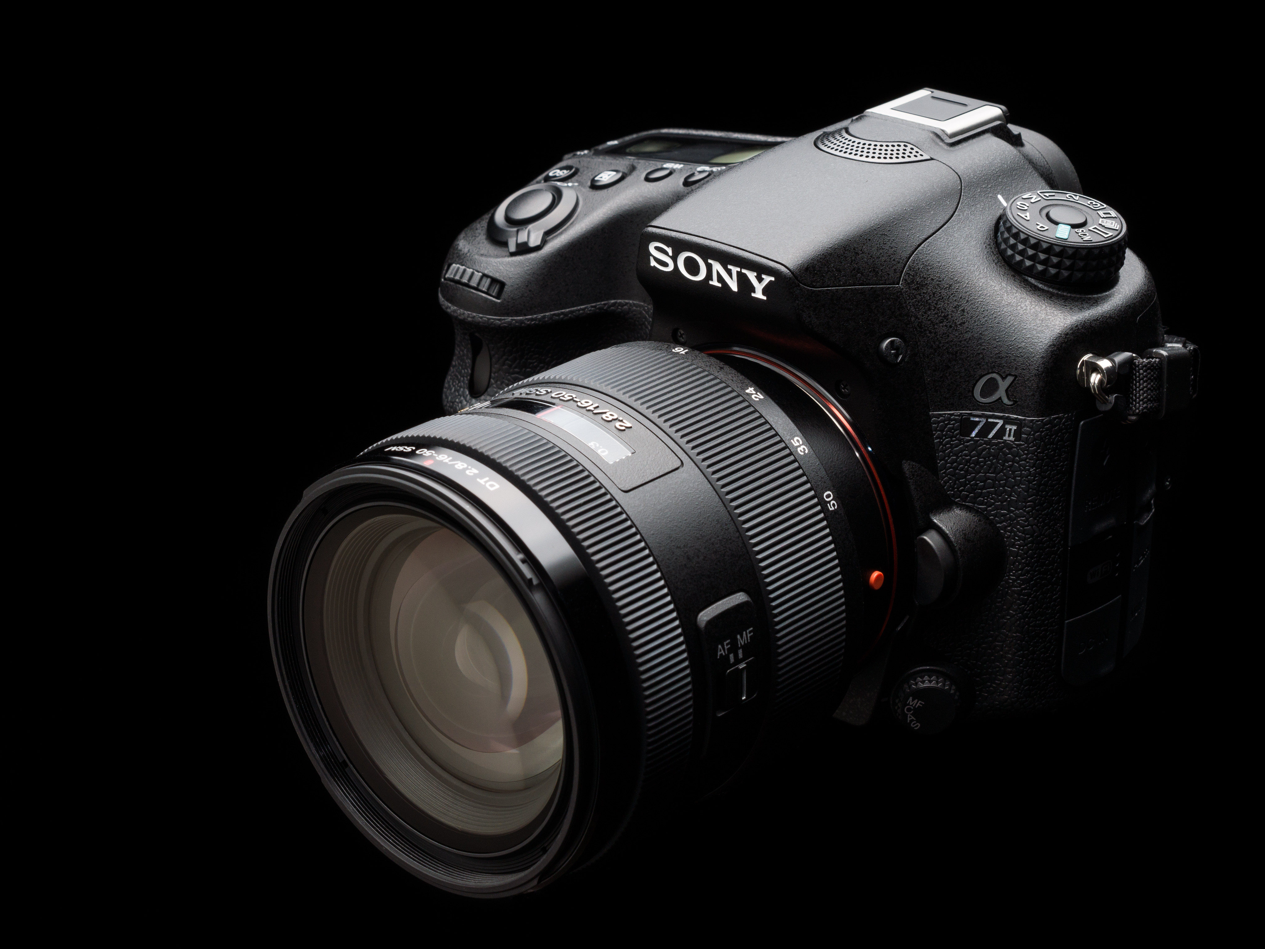 Sony α 77 II A-mount camera with Sony DT 16-50mm F2.8 SSM kit lens. Photographer's notes: This image was taken with a Sony α33 camera. It was lit by a Sony HVL-F42AM wireless flash (modified by a softbox) positioned above the subject, and a white reflector to the front-left.